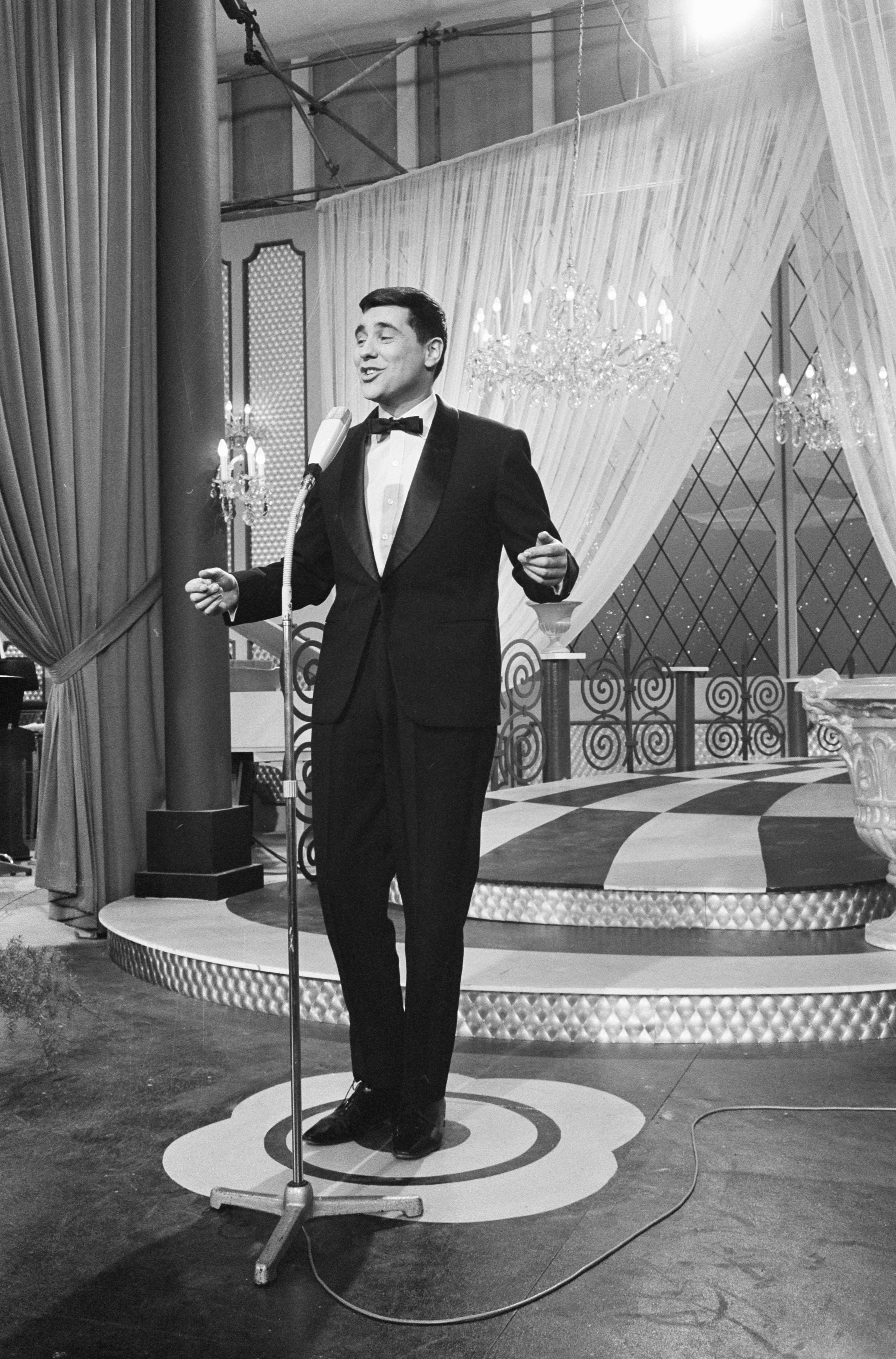 Jean Philippe at the 1962 Eurovision Song Contest in Luxembourg